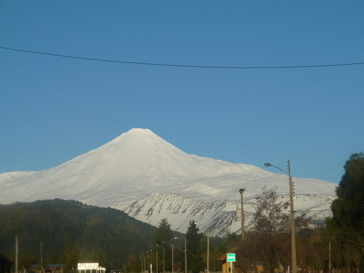 volcan antuco